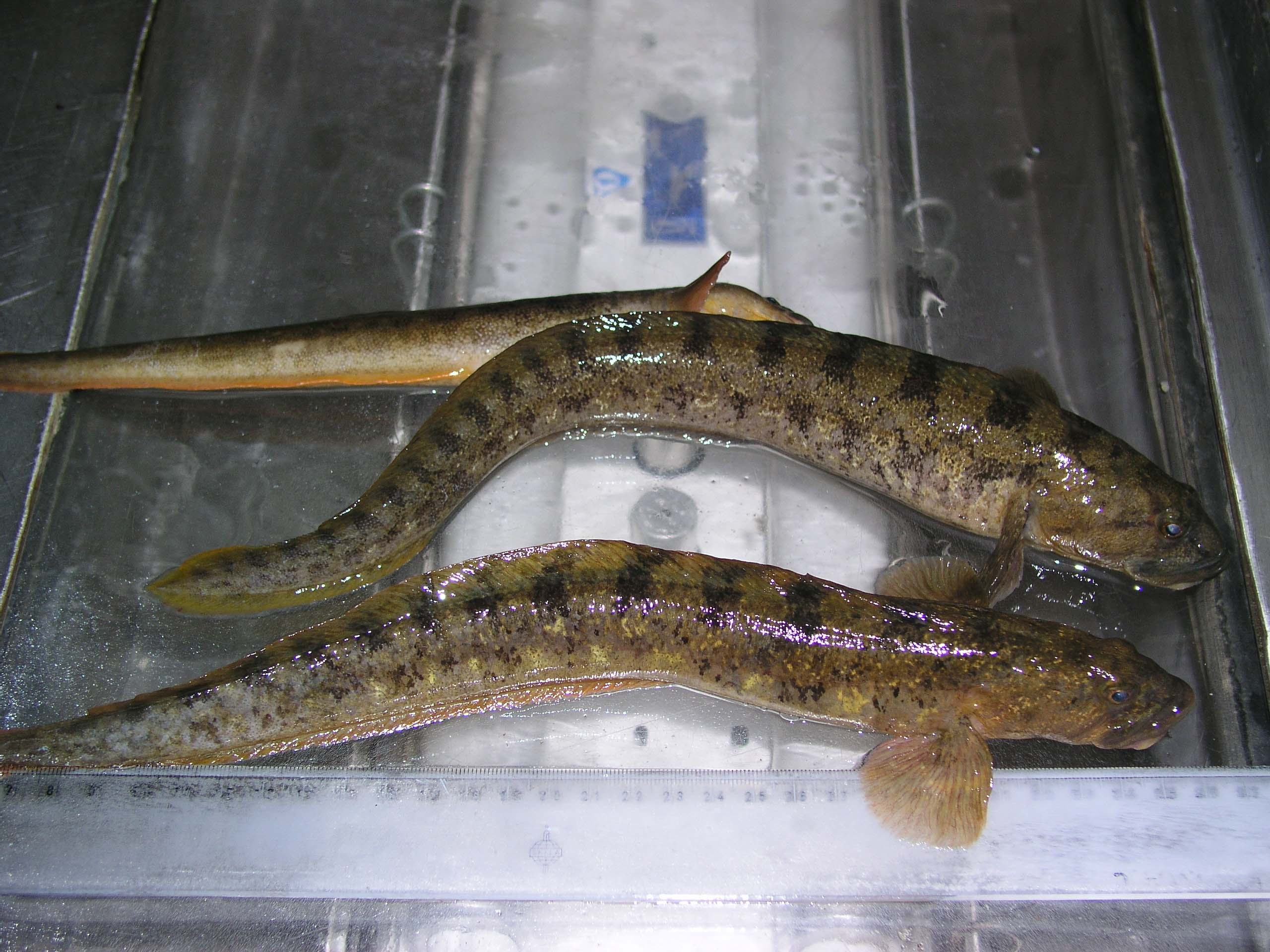 Viviparous eelpout (Zoarces viviparus) from the Gulf of Gdansk, caught near the Hel Marine Station